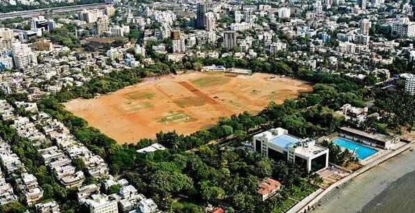 An aerial view showing the planned layout of the Shivaji Park Residential Zone